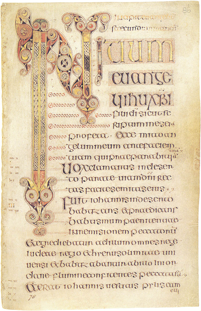 Image of page from the 7th century Book of Durrow, from The Gospel of Mark. The book, kept in Trinity, College Dublin, is hosted by Catholic U for educational purposes as part of its public image library.